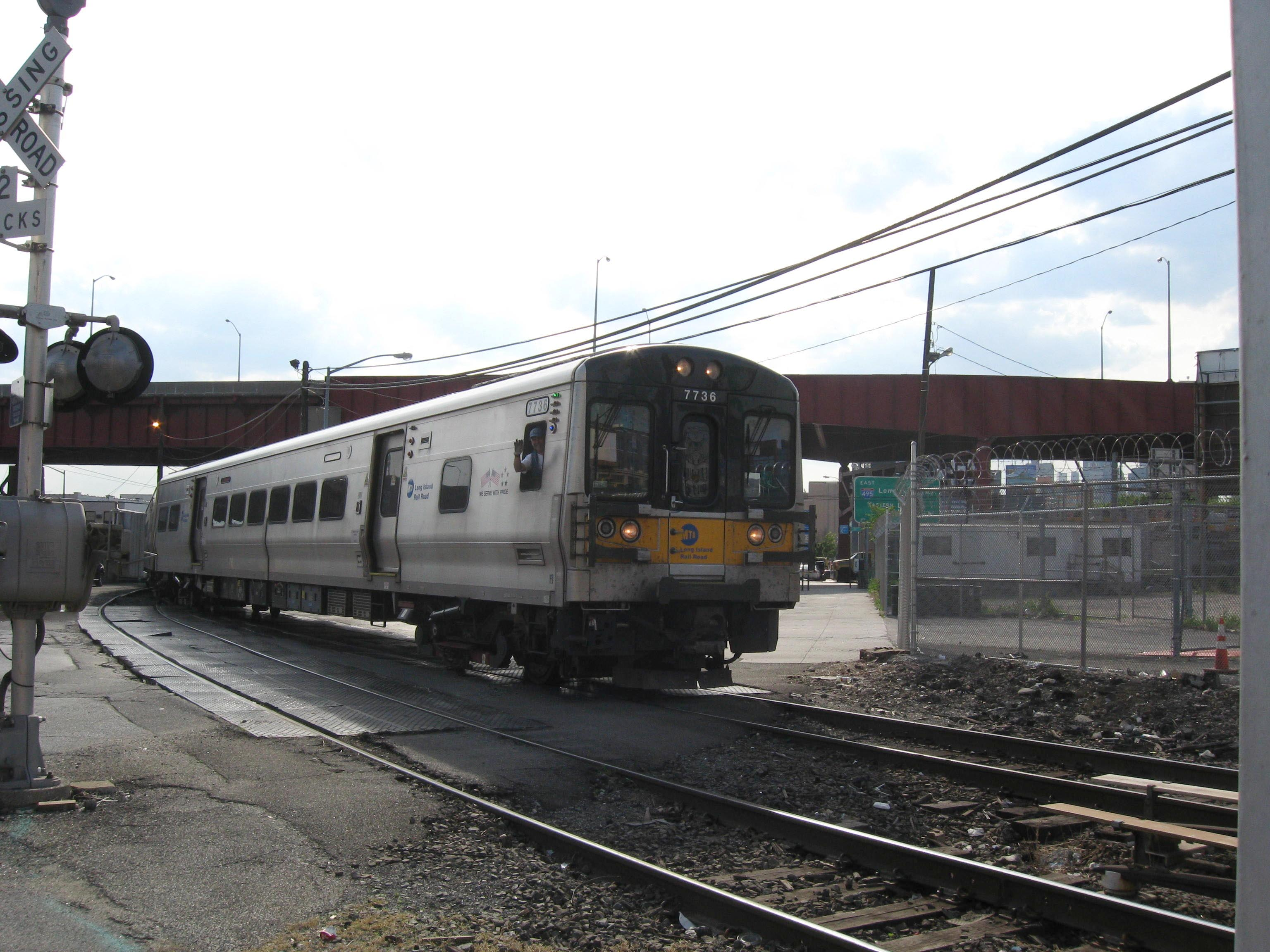 Looking west on a sunny June 3 2008 afternoon as a train crawls under McGuinness Blvd Bridge and though Borden Avenue grade crossing, eastbound from LIC Station to Hunterspoint Avenue in City Terminal Zone. See File:Hunterspoint Av LIRR jeh.JPG for its next stop.